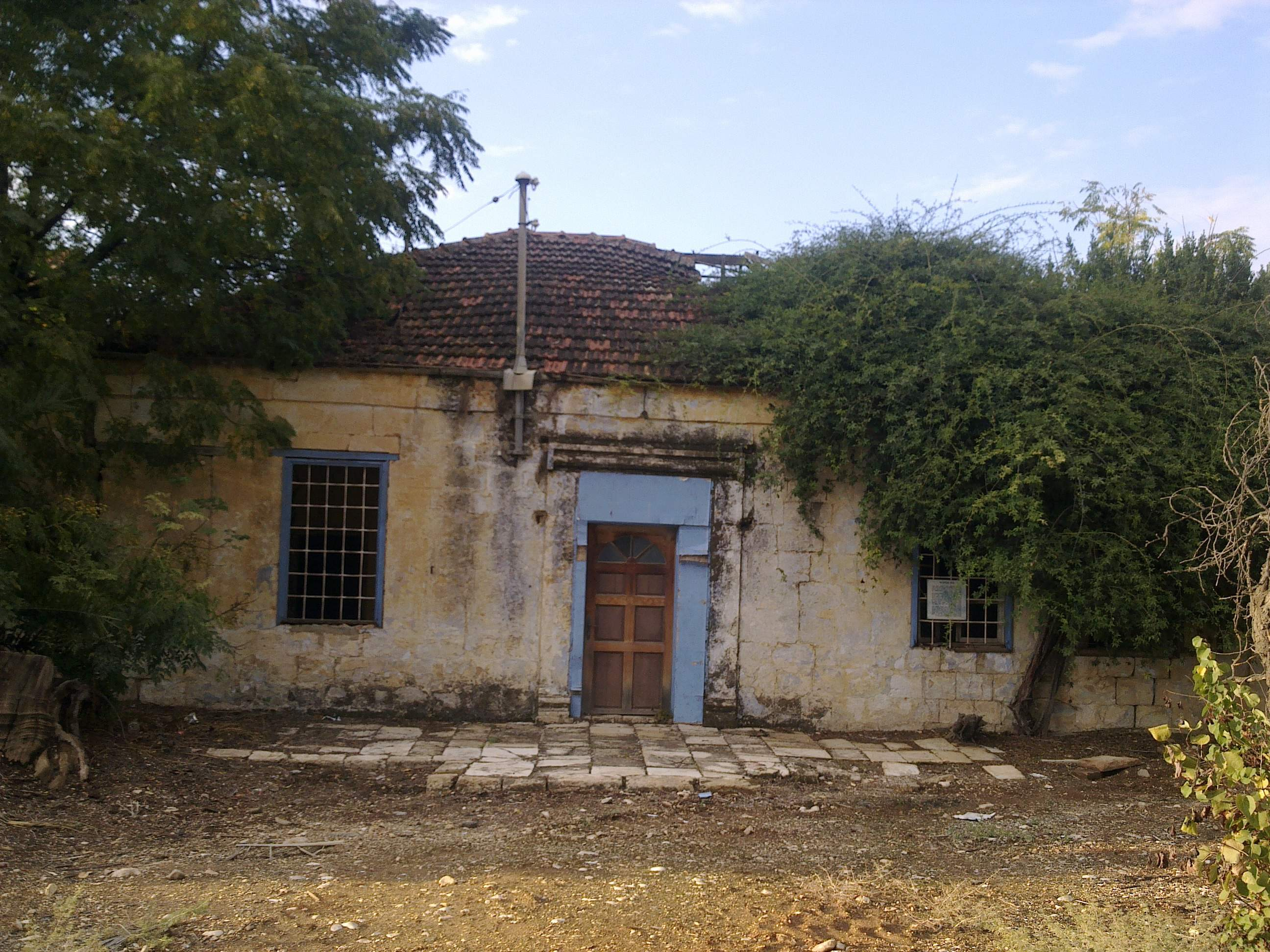 Nissim Bechor Alchadef's house